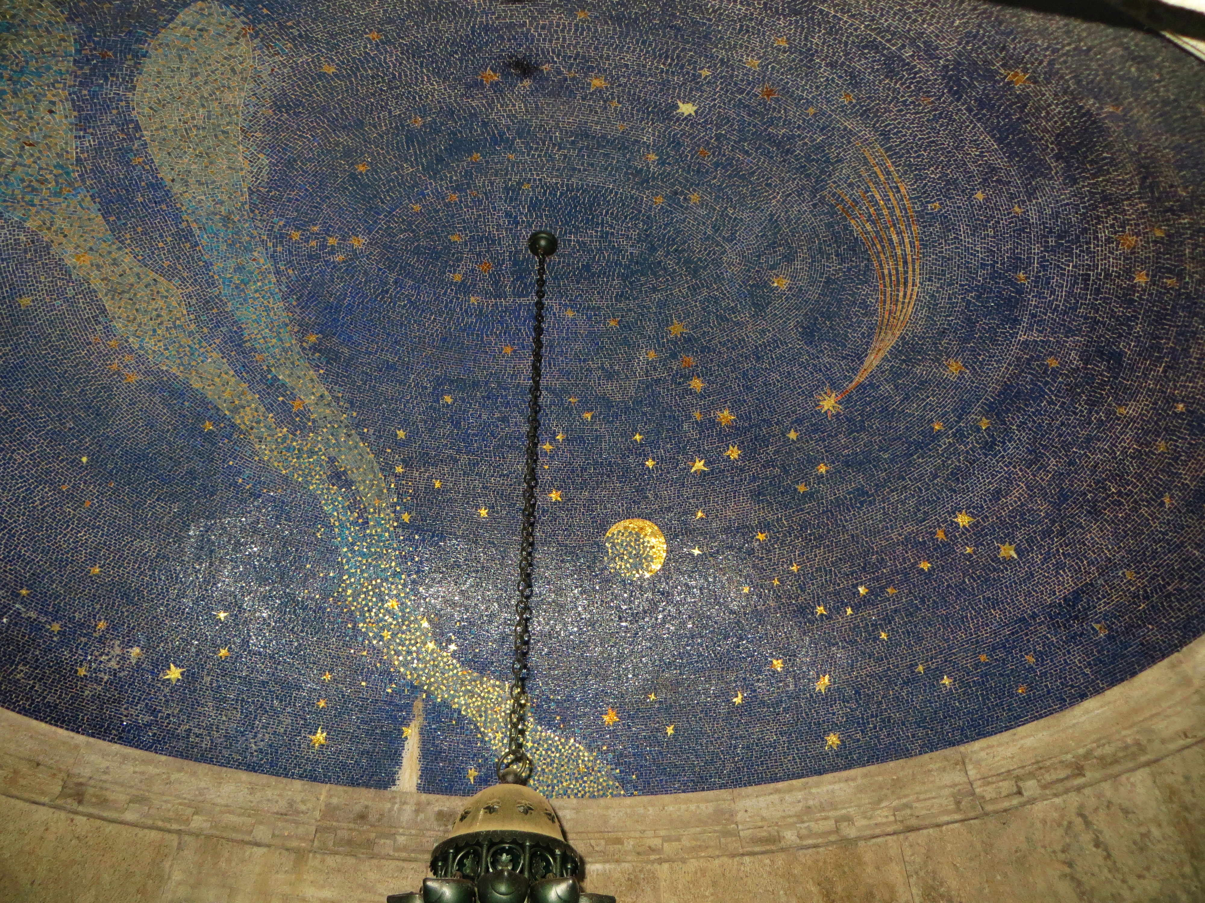 Part of the dome mosaic in the Krumm-Mausoleum, Old Graveyard, Offenbach am Main